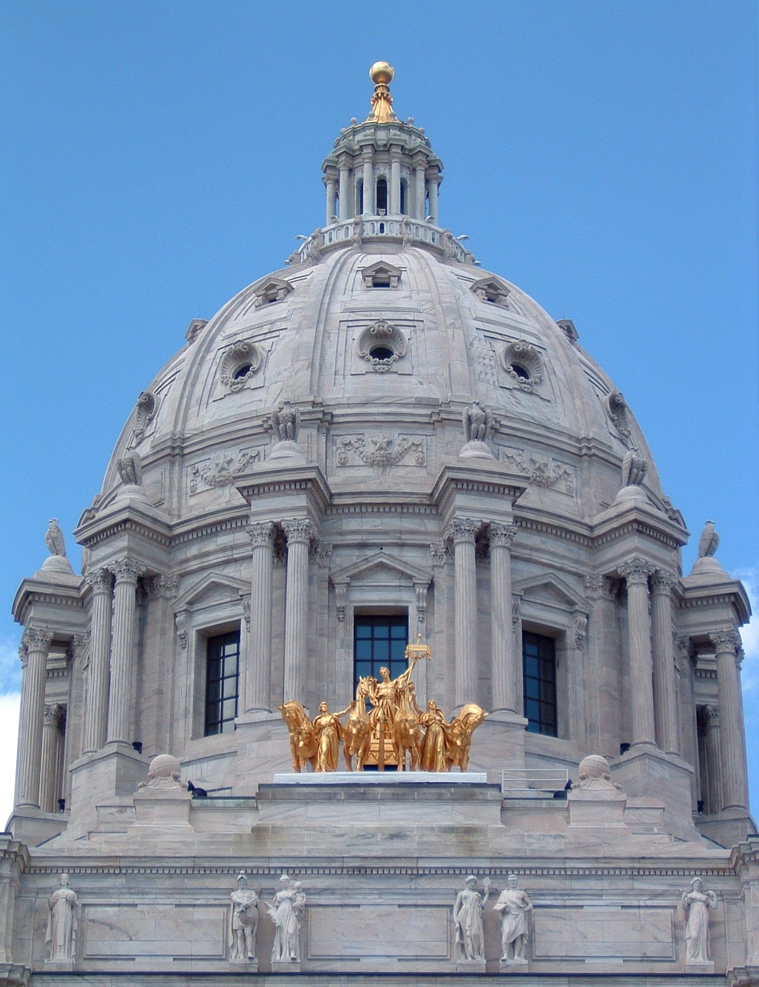 Dome of the Minnesota State Capitol in Saint Paul, Minnesota. The building features a gilded quadriga called Progress of the State, and a ball mounted above the dome is covered in gold leaf. The structure is made of Georgia marble and is one of only about five unsupported marble domes in the world. It is a near-duplicate of the dome on St. Peter's Basilica in Rome.